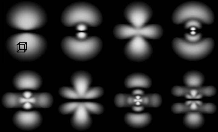 Position probability distributions of eight stationary states of atomic hydrogen, projected along the y-axis.